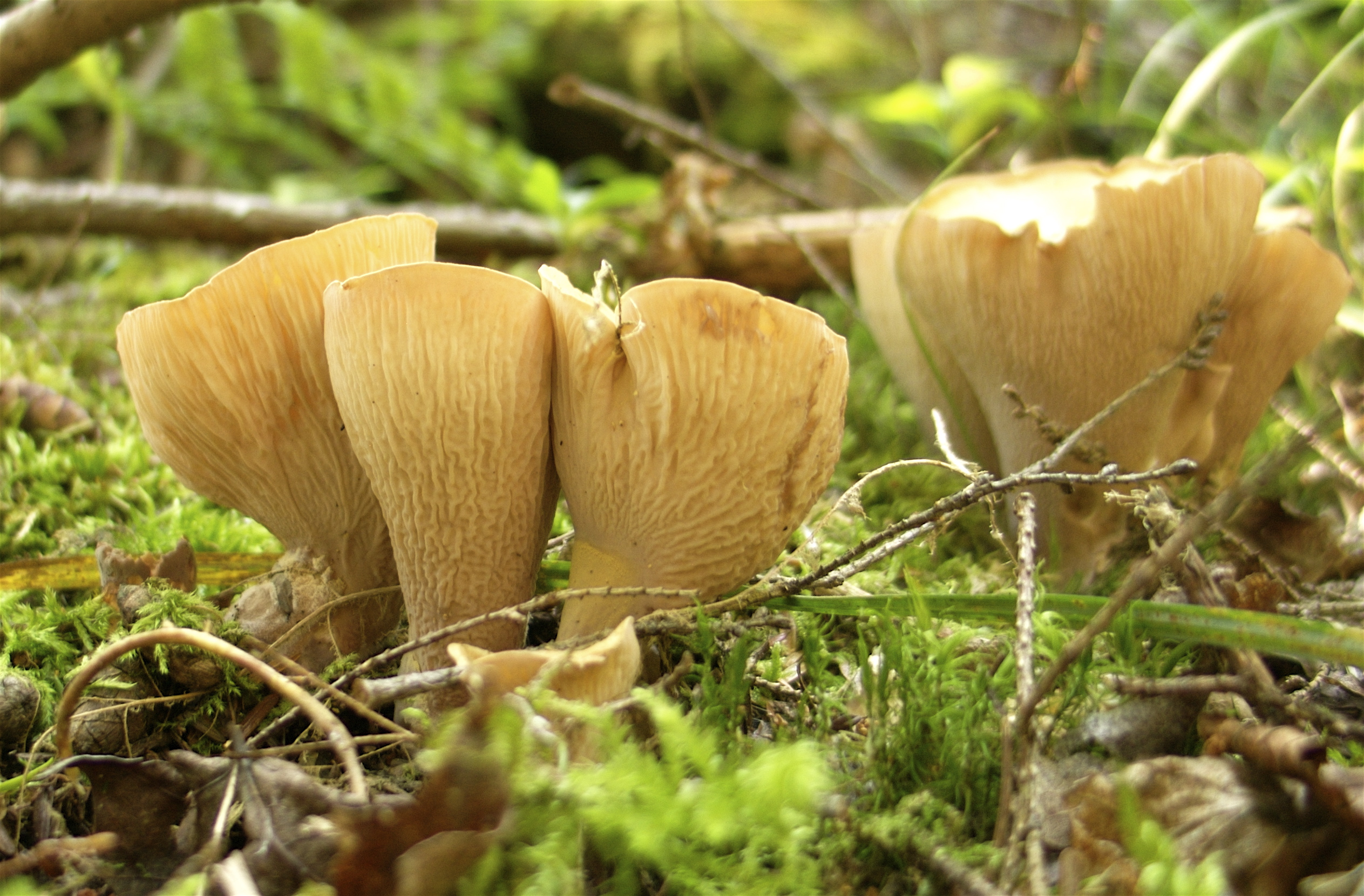 Pig's ear, Gomphus clavatus. Perhaps an albino form.